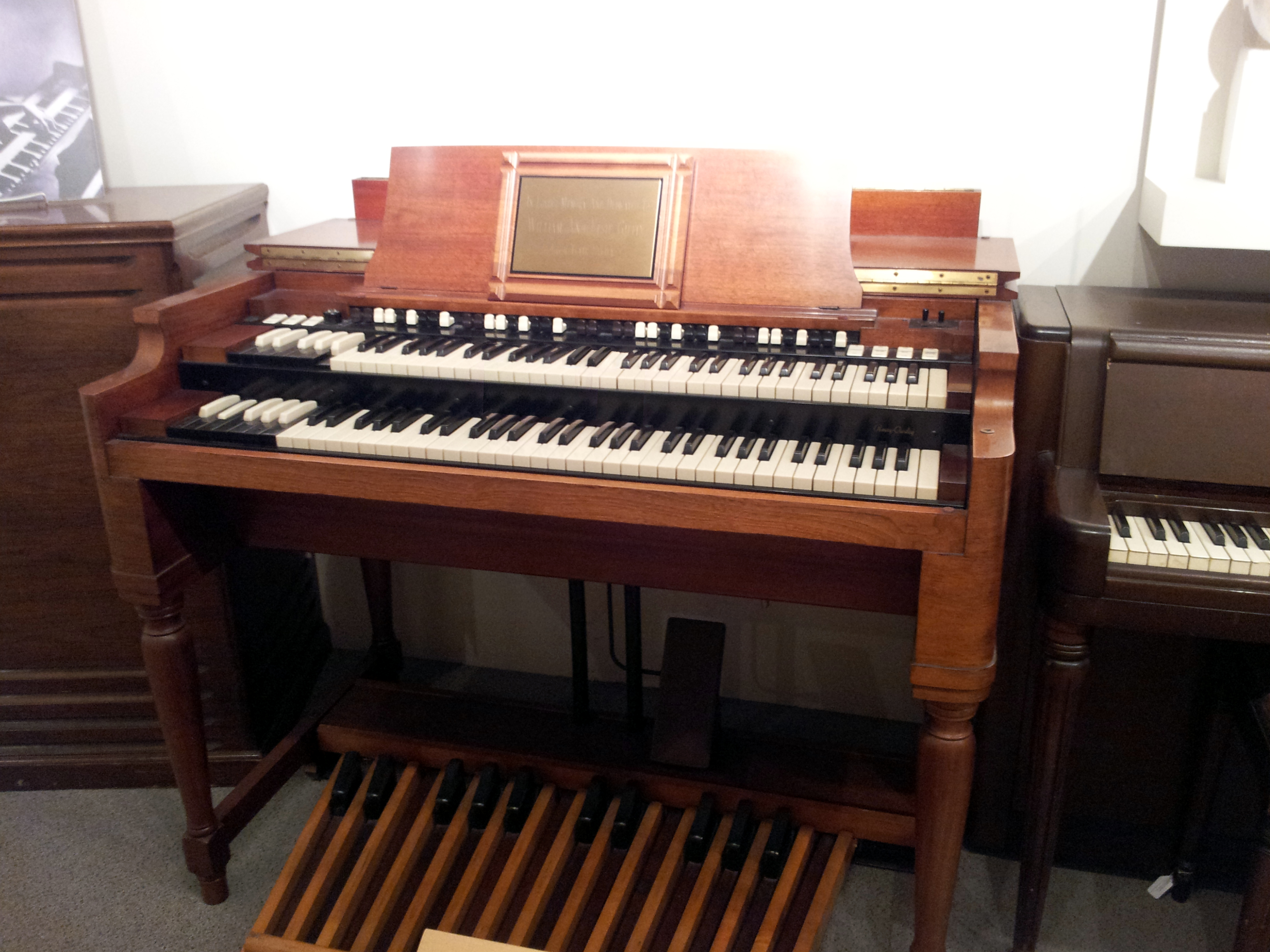 Hammond B3, Museum of Making Music EDITED: removed warning board, and roughly interpolated that region.